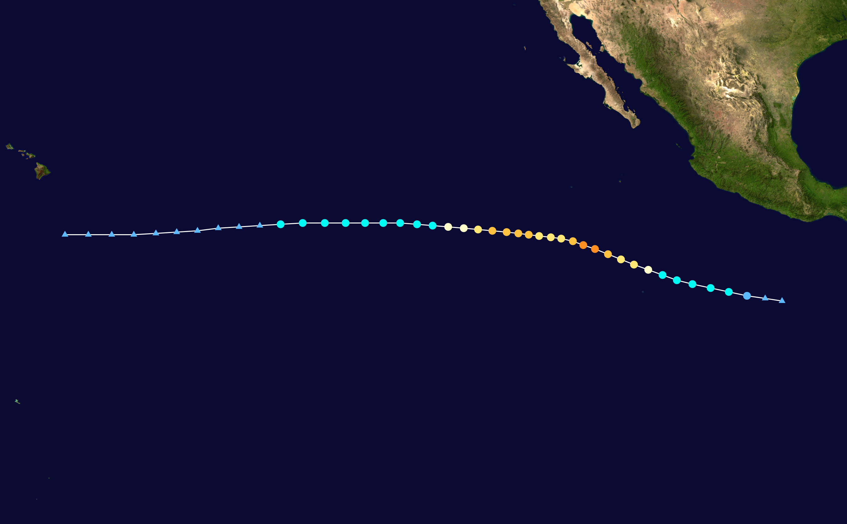 Track map of Hurricane Emilia of the 2012 Pacific hurricane season. The points show the location of the storm at 6-hour intervals. The colour represents the storm's maximum sustained wind speeds as classified in the Saffir–Simpson scale (see below), and the shape of the data points represent the nature of the storm, according to the legend below. Saffir–Simpson scale Tropical depression≤38 mph≤62 km/h Category 3111–129 mph178–208 km/h Tropical storm39–73 mph63–118 km/h Category 4130–156 mph209–251 km/h Category 174–95 mph119–153 km/h Category 5≥157 mph≥252 km/h Category 296–110 mph154–177 km/h Unknown Storm type Tropical cyclone Subtropical cyclone Extratropical cyclone / Remnant low / Tropical disturbance / Monsoon depression